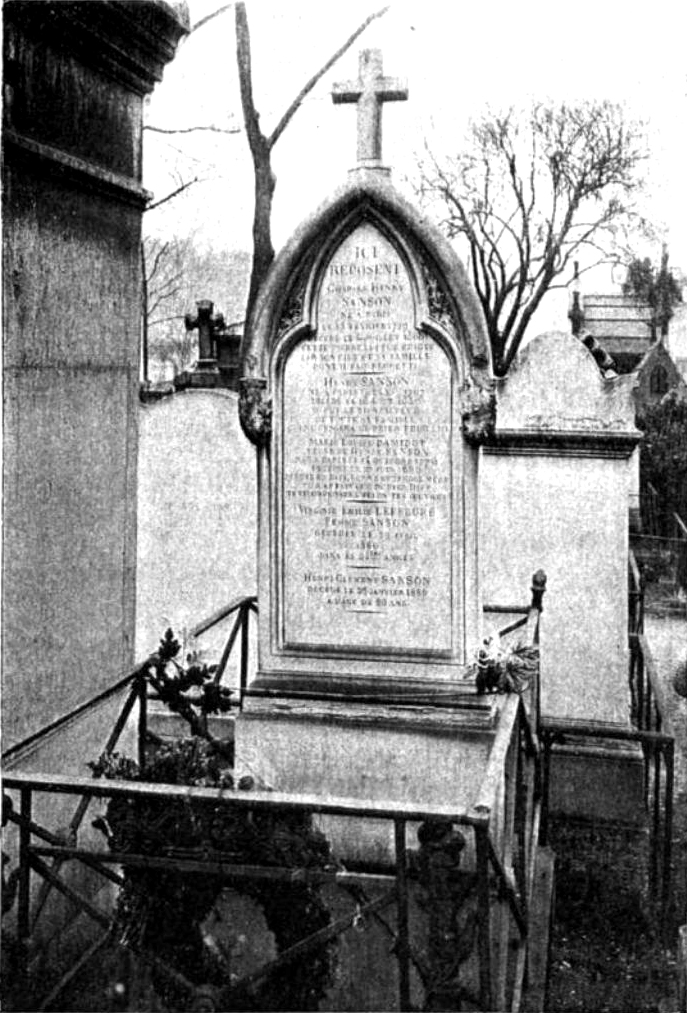 The Headstone of the Sanson family, French executioners